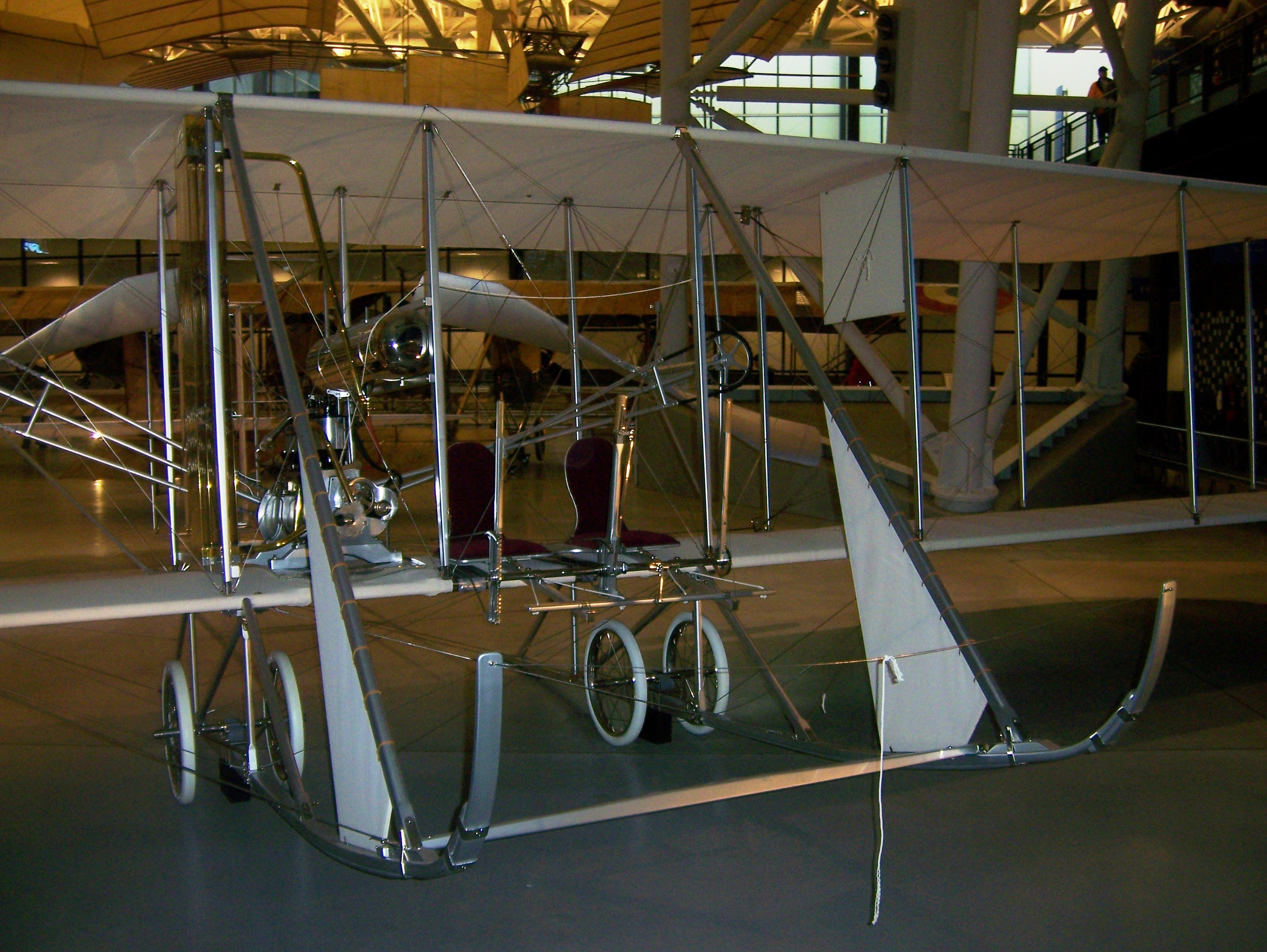 Wright Model B in Steven F. Udvar-Hazy Center Museum Information: By October 1905, the Wright brothers had advanced their breakthrough 1903 design to a practical airplane. In 1908 and 1909, after securing their patent and contracts for the sale of their invention, they publicly demonstrated an improved version of their 1905 design, the Wright Model A, in Europe and the United States to great acclaim. In 1910 the Wrights built a manufacturing facility in their hometown of Dayton, Ohio. Their first production aircraft, the Wright Model 13, differed from the Model A by having wheeled landing gear and the horizontal elevator in the rear instead of the front. This aircraft is a thoroughly accurate, flyable reproduction of the Wright Model B. All materials and techniques used to build it are the same as those employed by the Wright brothers. The engine is an actual 1911 Wright—built motor (serial number 33) used on an original Model 13. Wingspan: 11.9m (39ft) Length: 9 m (29 ft 7 in) Height: 2.4 m (8 ft) Weight, empty: 393 kg (866 lb) Engine: Wright vertical 4-cylinder, 35 hp Builders: Ken Hyde and The Wright Experience Team; Warrenton Va, 2003